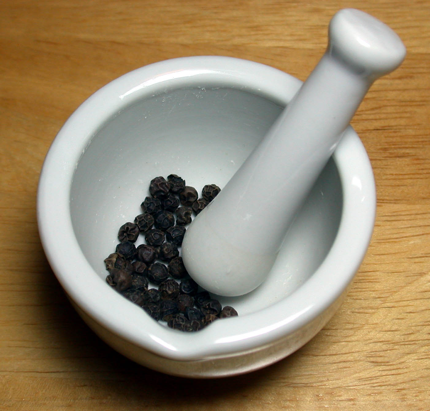 Close-up of black peppercorns, Piper nigrum, in mortar and pestle.